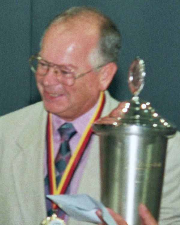 Gottfried Braun, Winner of the German Senior Chess Championship 1995 at Oldenburg.